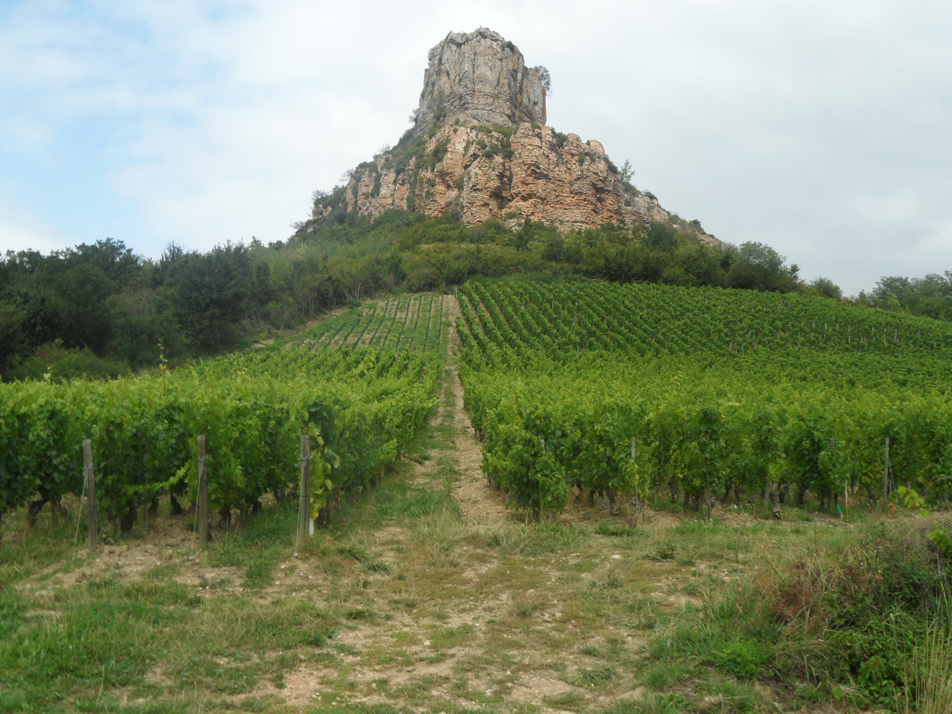 The vineyard at the foot of the Rock of Solutré.